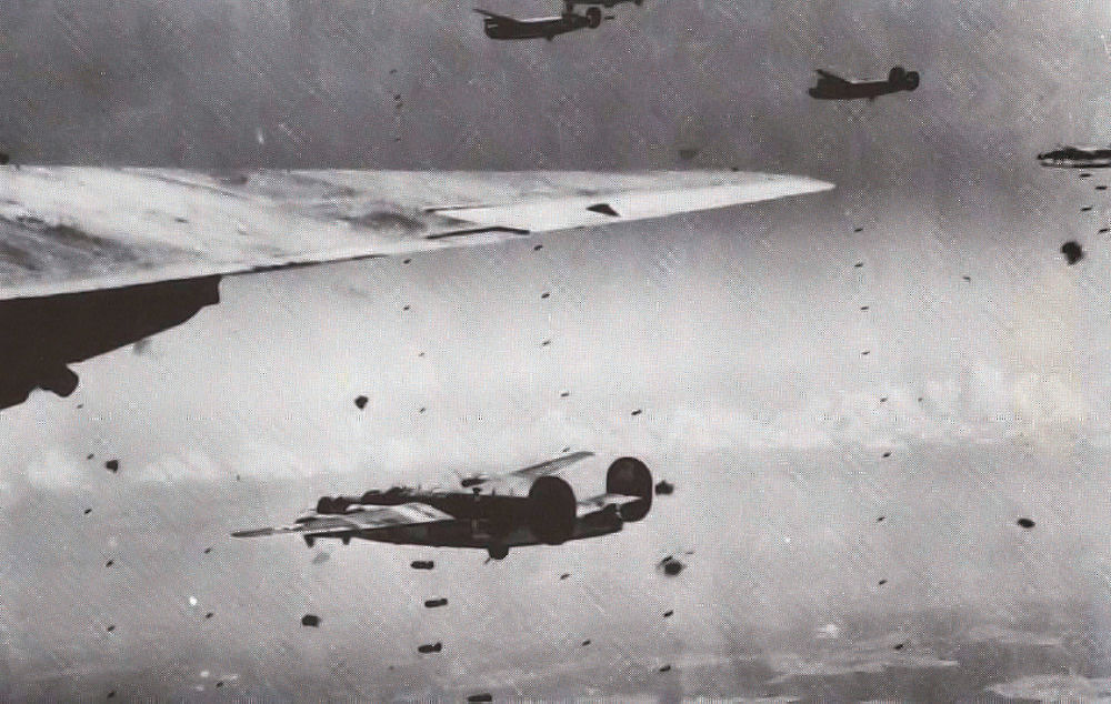 460th Bombardment Group B-24 Liberators dropping 500 pound bombs on one of their many missions